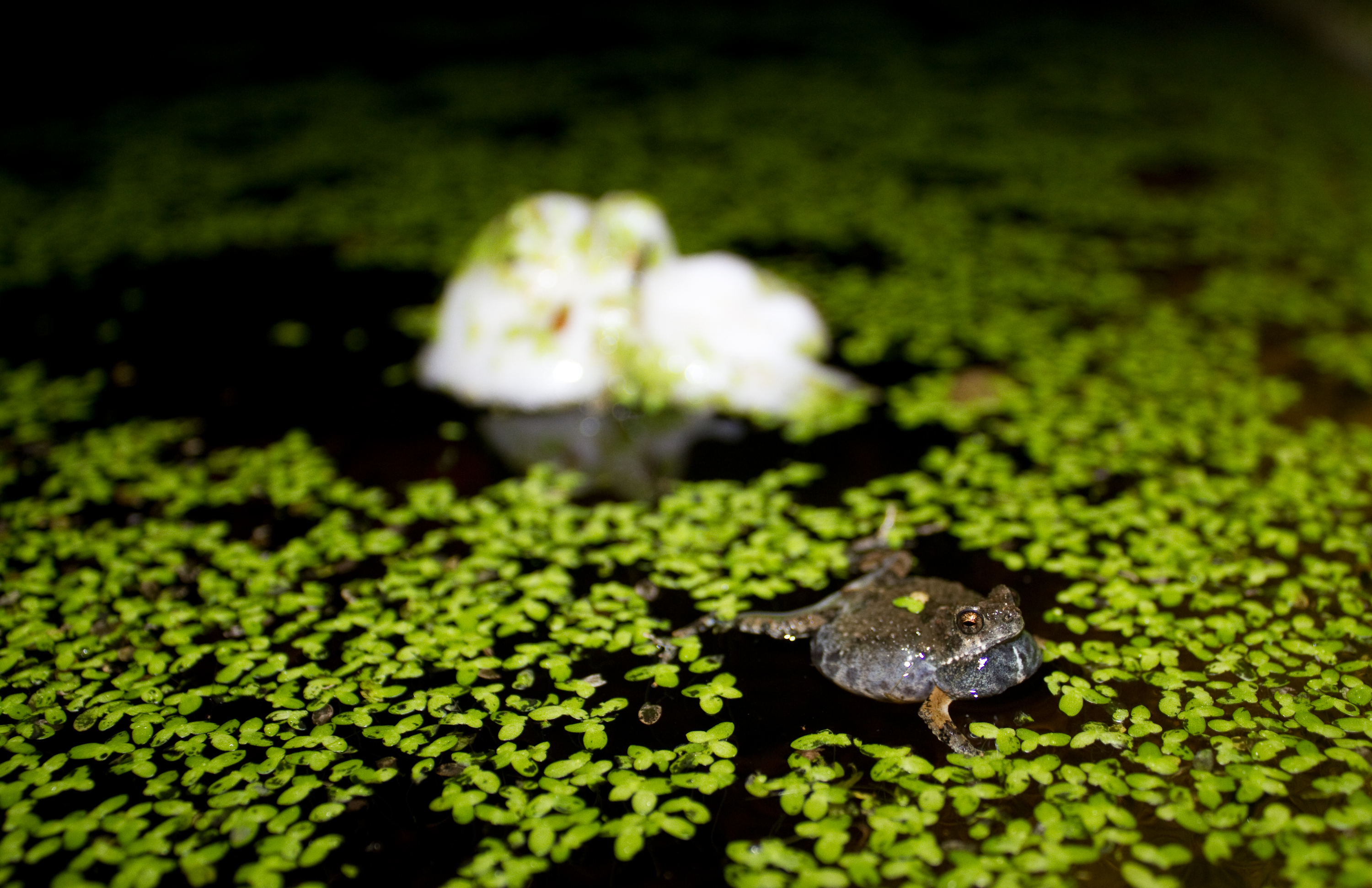 Tungara Frog